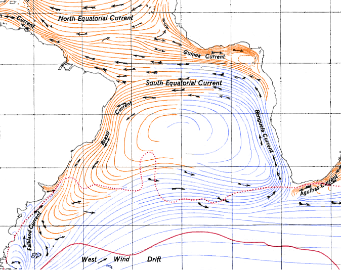 The South Atlantic Gyre, a clockwise-swirling vortex of ocean currents in the Southern Atlantic Ocean